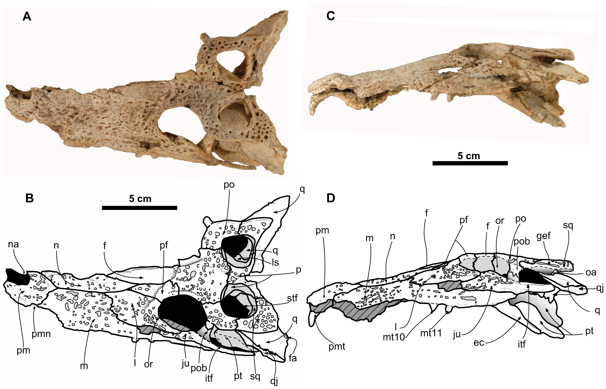 Skull of Arenysuchus gascabadiolorum (ELI-1). A–B, dorsal view. C–D, lateral view. Hatched grey pattern represents broken surfaces. Anatomical Abbreviations: ec, ectopterygoid; f, frontal; gef, groove for ear flap; itf, infratemporal fenestra; ju, jugal; l, lacrimal; ls, laterosphenoid; m, maxilla; mt10, maxillary tooth 10; mt11, maxillary tooth 11; n, nasal; na, naris; oa, otic aperture; or, orbit; p, parietal; pf, prefrontal; pm, premaxilla; pmn, premaxillomaxillary notch; pmt, premaxillary tooth; po, postorbital; pob, postorbital bar; pt, pterygoid; q, quadrate; qj, quadratojugal; sq, squamosal; stf, supratemporal fenestra.